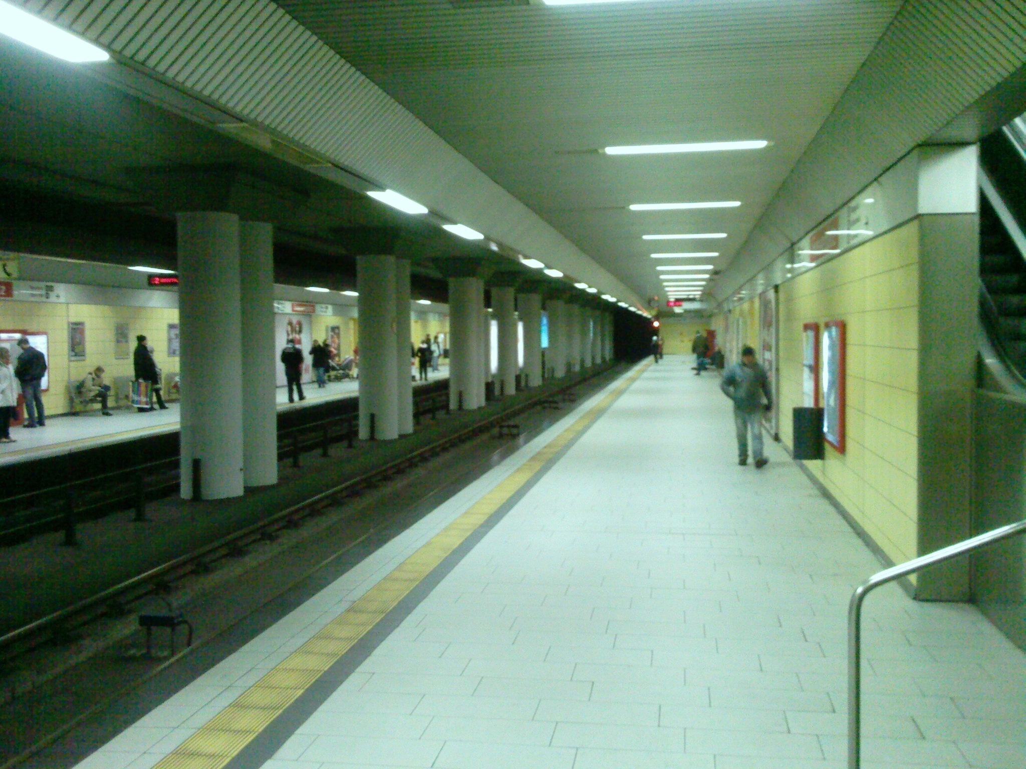 U-Bahnhof Friesenplatz, Cologne, Germany